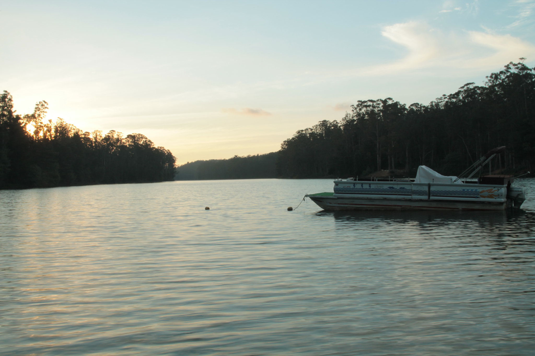 500px provided description: Artificial lake [#lake ,#city ,#urban ,#urban exploration]